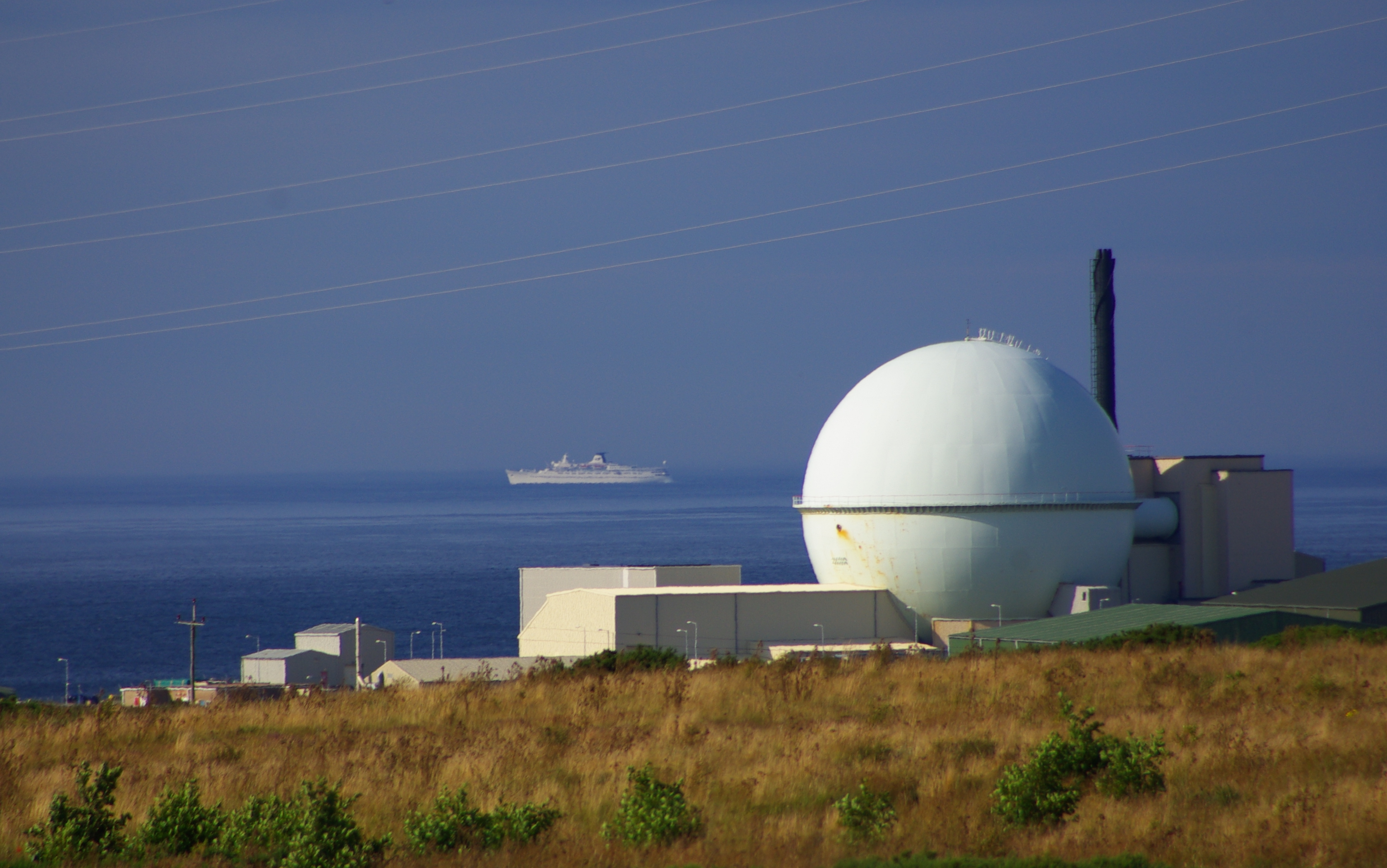 Dounreay, Caithness, in the Highland area of Scotland, UK.